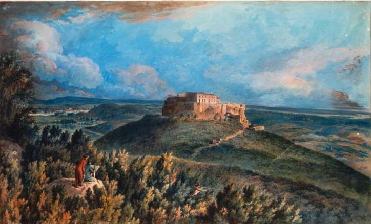 A view of the castle of Bèucaire (Occitania)